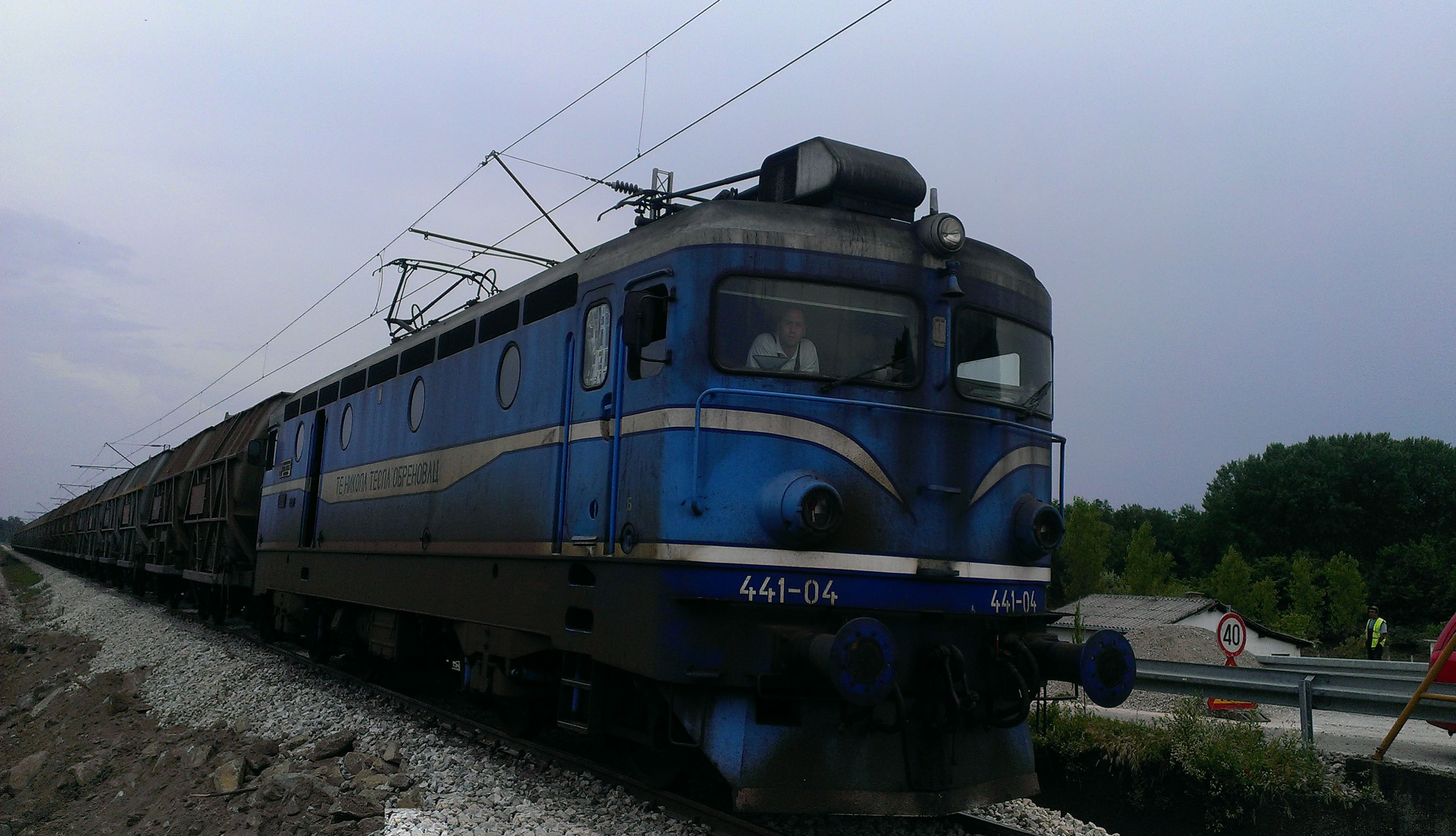 Class 441 electric locomotive of TPP Nikola Tesla railtransport passing by one rail track damaged by 2014 floods.